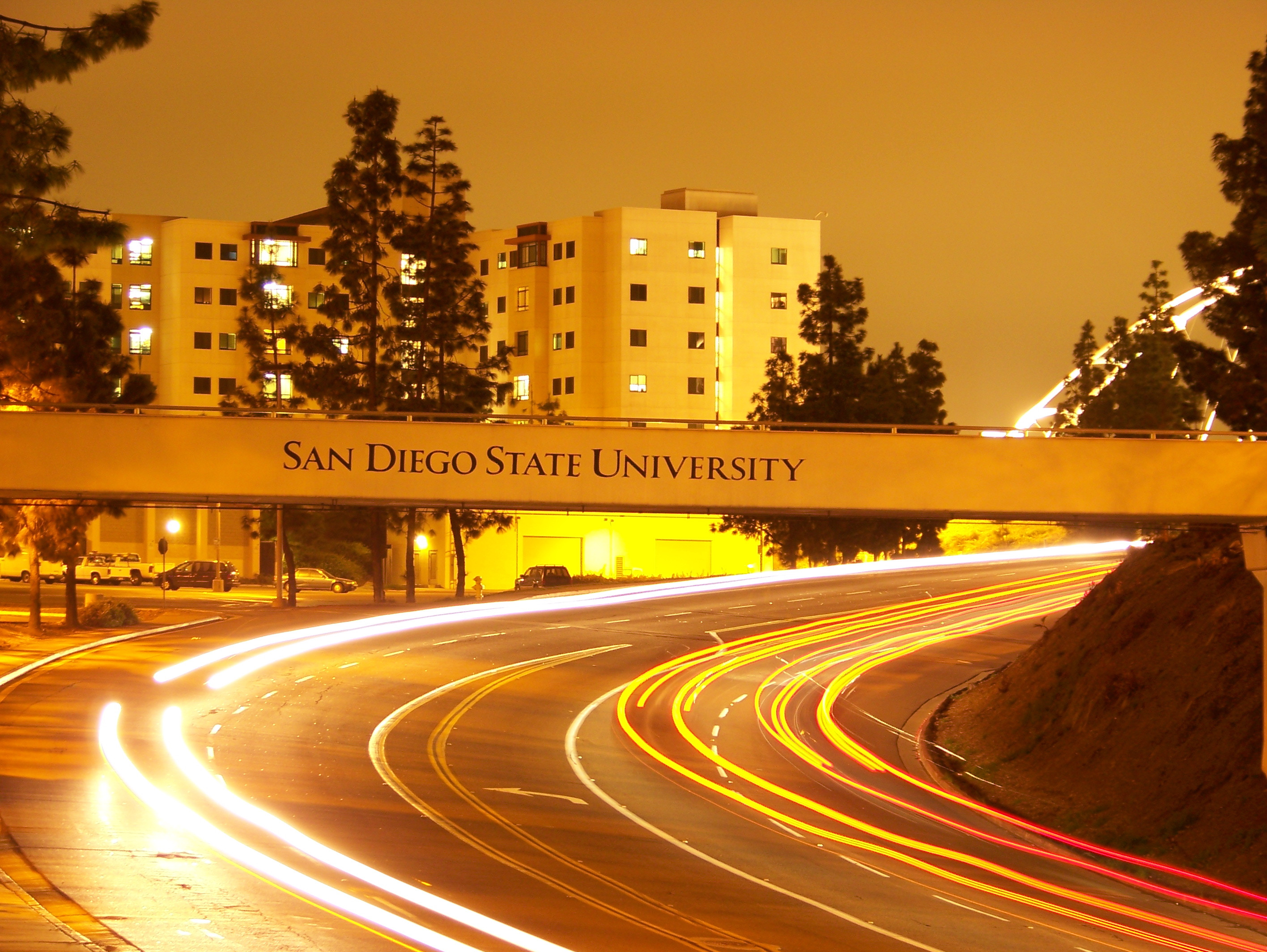 One of several pedestrian bridges of the San Diego State University. The building in the background is the Tepeyac dorm of the Cuicacalli residence hall. To the far right is the large pedestrian bridge connecting the dorms to the campus.